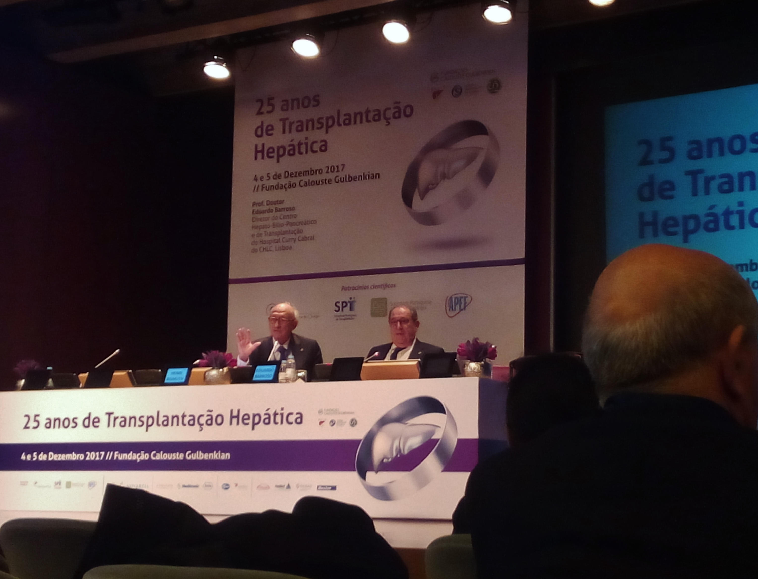 Os Professores Henri Bismuth e Eduardo Barroso, na reunião comemorativa "25 Anos de Transplantação Hepática", no Fundação Calouste Gulbenkian, Lisboa, em 4 de Dezembro de 2017.